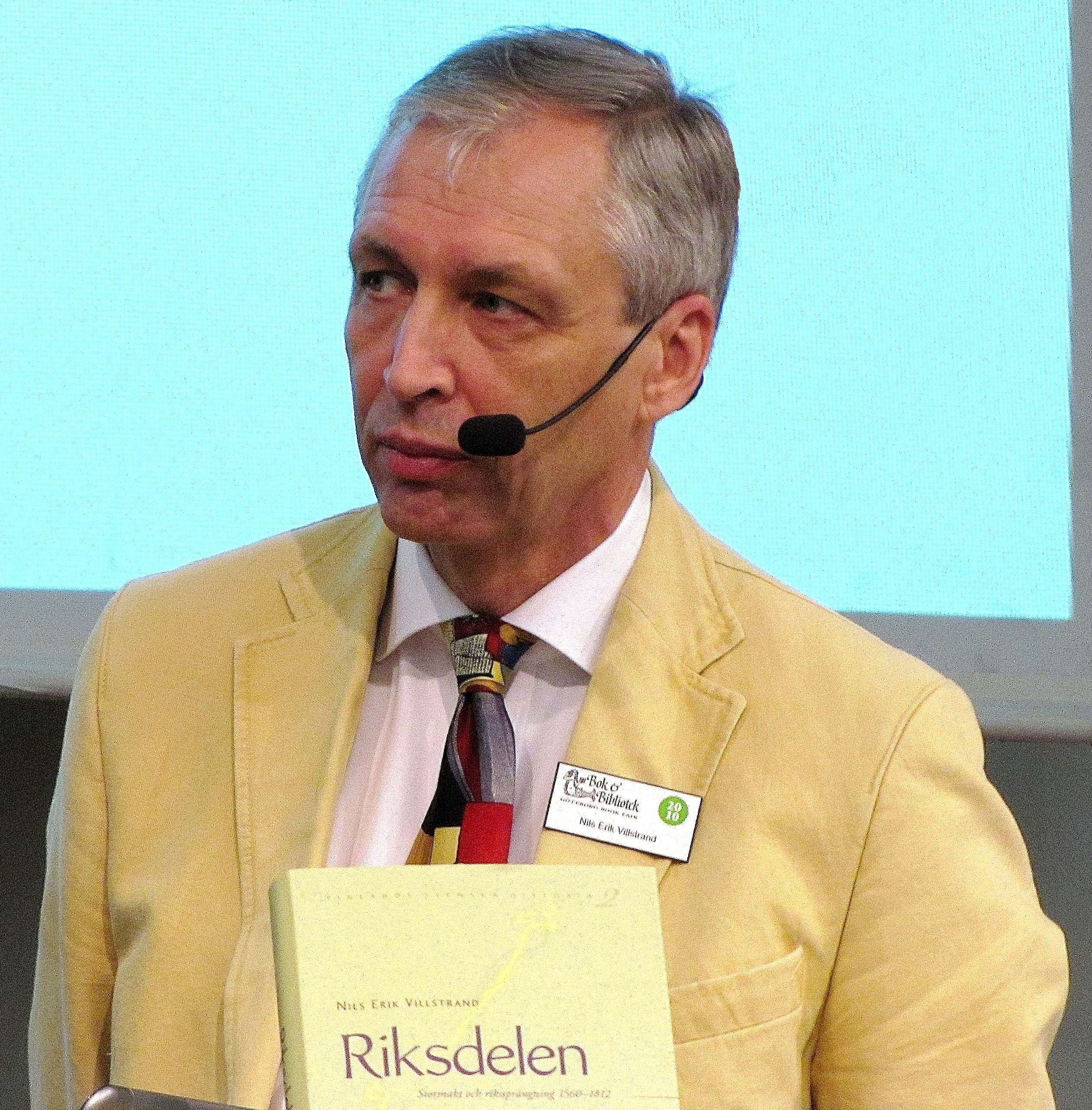 Finish history professor Nils Erik Villstrand at the 2010 Göteborg Book Fair.